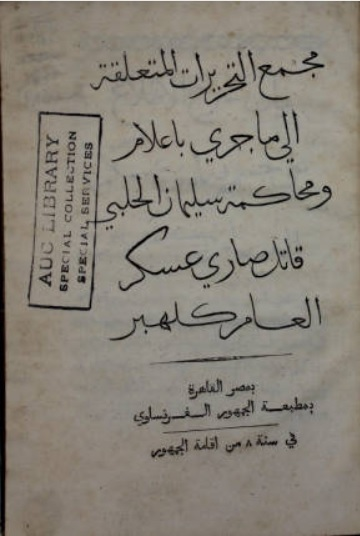 Records of the trial of Sulayman al-Halabi, who had assassinated the general of the French campaign in Egypt, Kleber, on 14 June 1800.